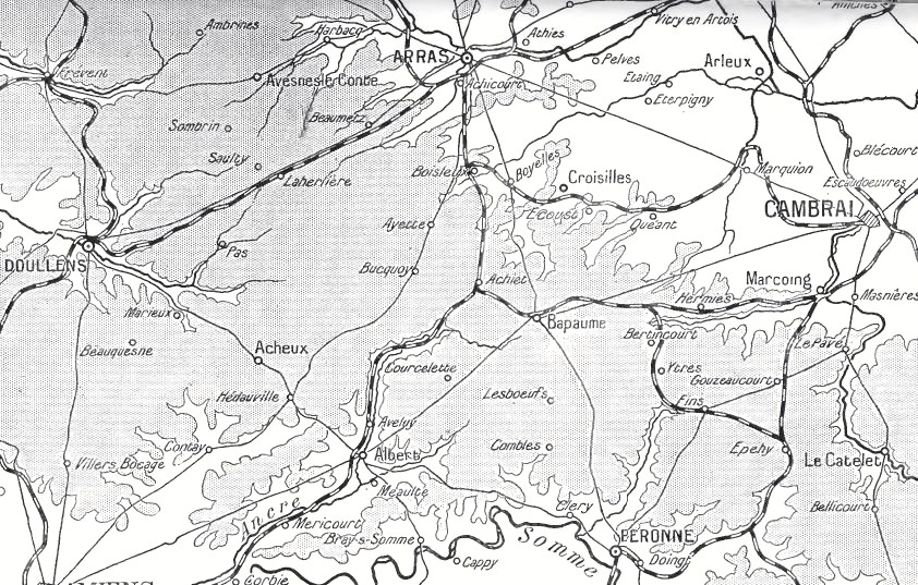 Amiens-Arras area, 1914